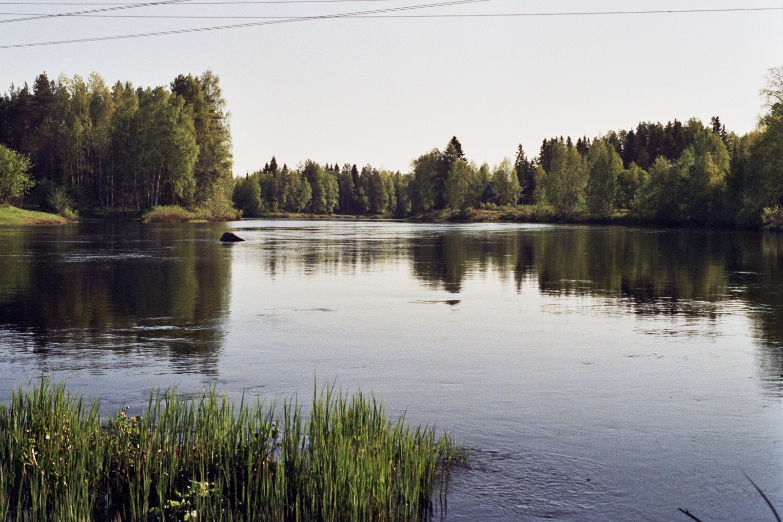 Kiiminki River in the Kiiminki municipality of Finland.